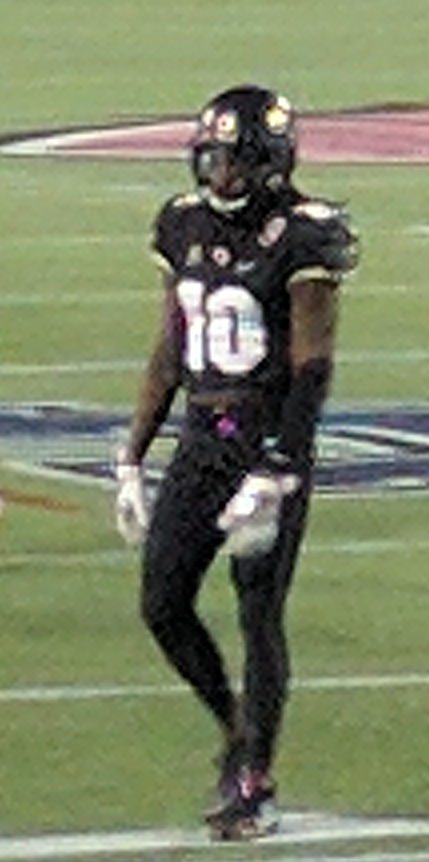 Shaquill Griffin in the first quarter